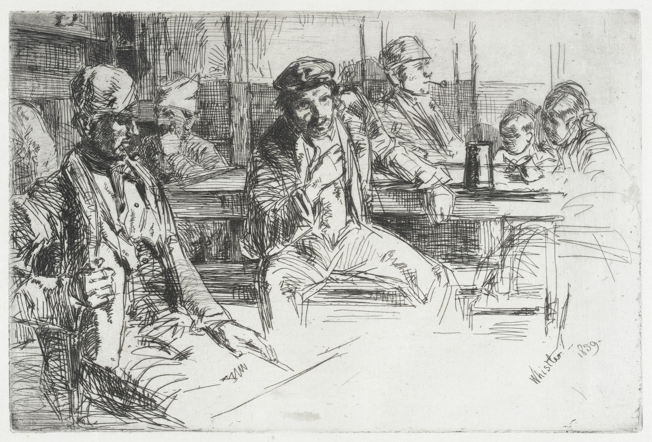 United States, 1859 Prints; etchings Etching and drypoint The Julius L. and Anita Zelman Collection (M.86.366.6) Prints and Drawings